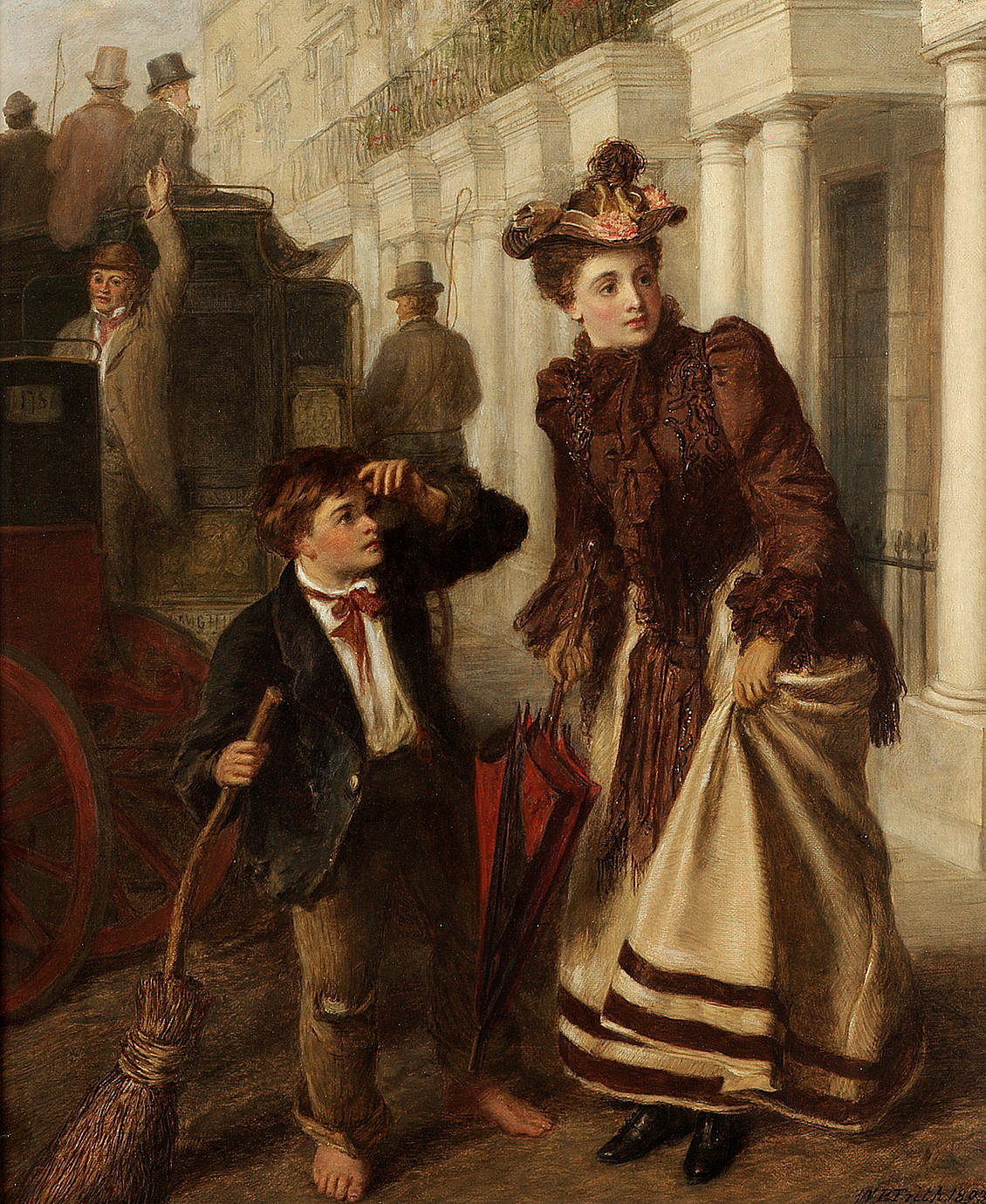 The crossing sweeper. Signed and dated WPFrith./1893. Oil on canvas, 43.5 x 36 cm (one of many later versions of the 1858 paintings)